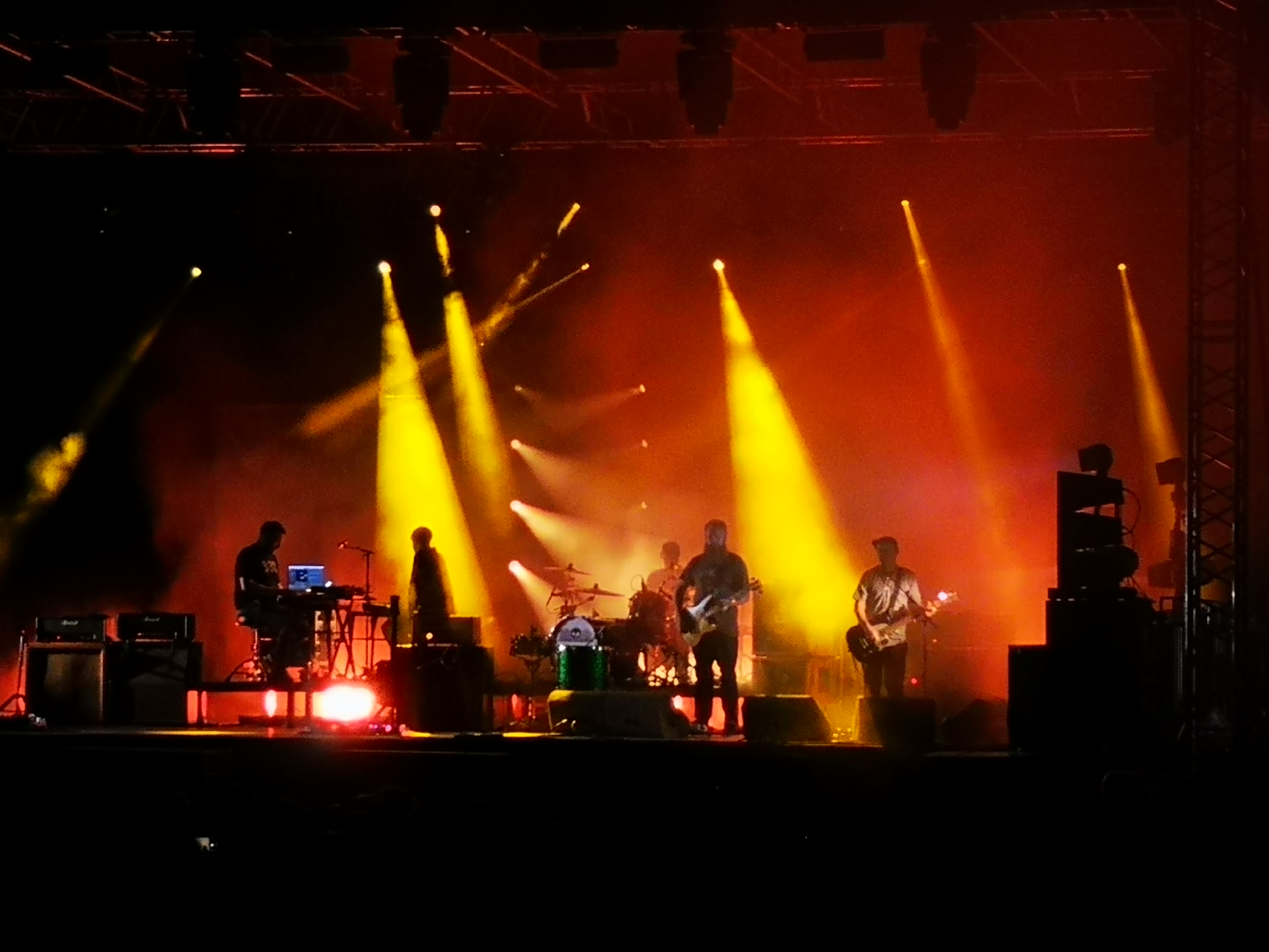 Mogwai live at Castello Visconteo, Pavia on July 11th, 2018